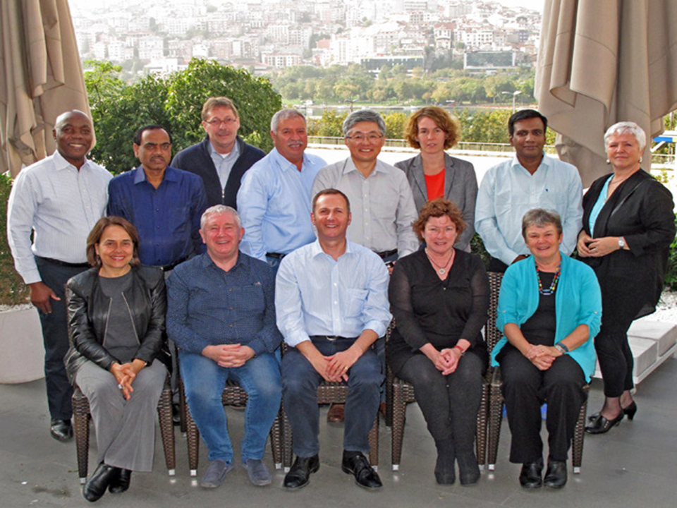 AFPI participation at global forums: Dr Raman Kumar President AFPI is the Young Doctor Movement Representative at WONCA World Executive